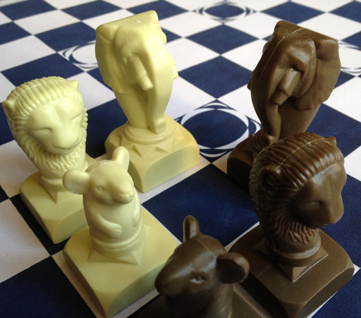 Barca board game pieces on Barca game-board--portable edition.